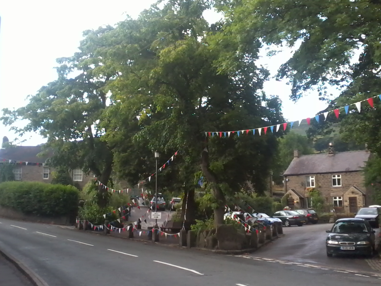 The village green in Bamford during the Well-Dressing celebration in 2010.